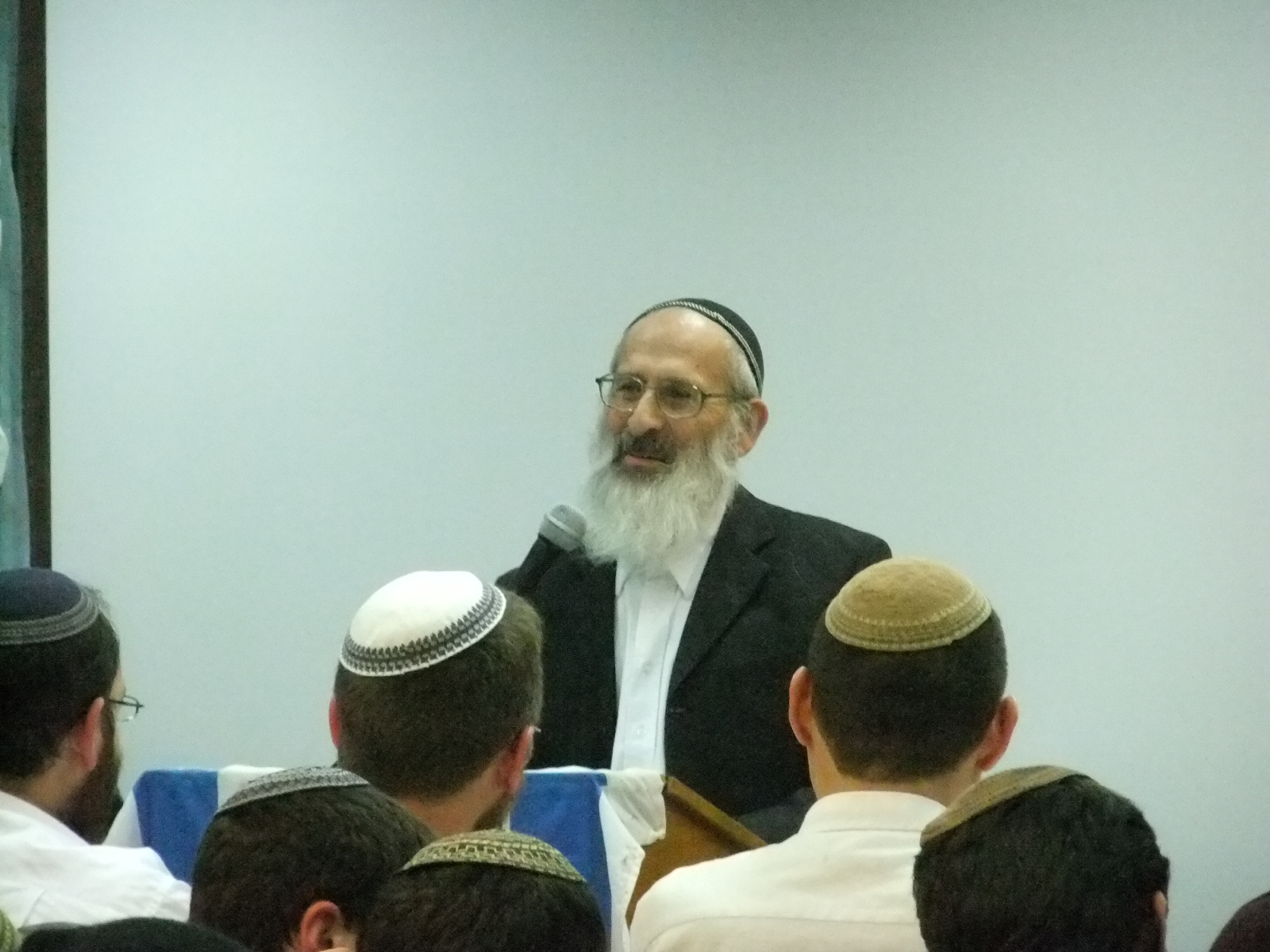 Rabbi Shlomo Aviner